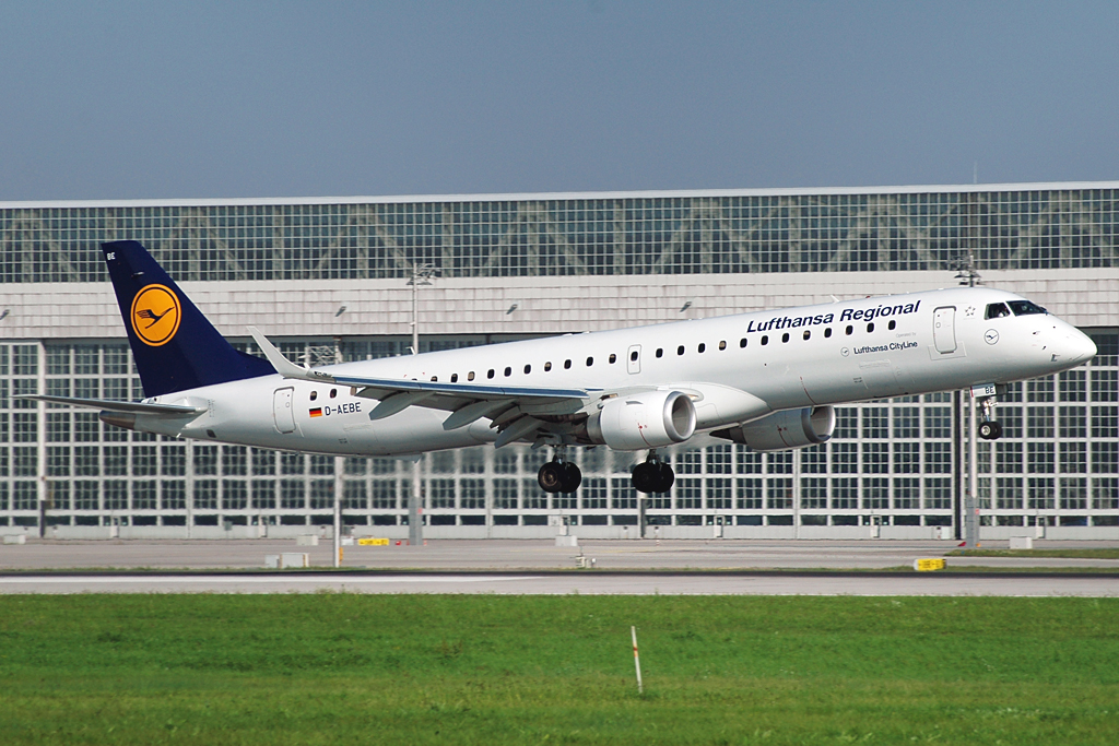 An Embraer jet aircraft in "Lufthansa Regional" colours is just taking off from Munich airport.